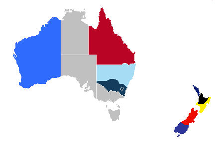 Australian Super 14 Franchise areas